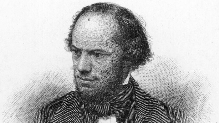 Rufus Wilmot Griswold (February 15, 1815 – August 27, 1857) This engraving of Griswold was published in 1855, a few years before his death from tuberculosis. It is based on a portrait painted by Miner Kilbourne Kellogg (1814–1889).